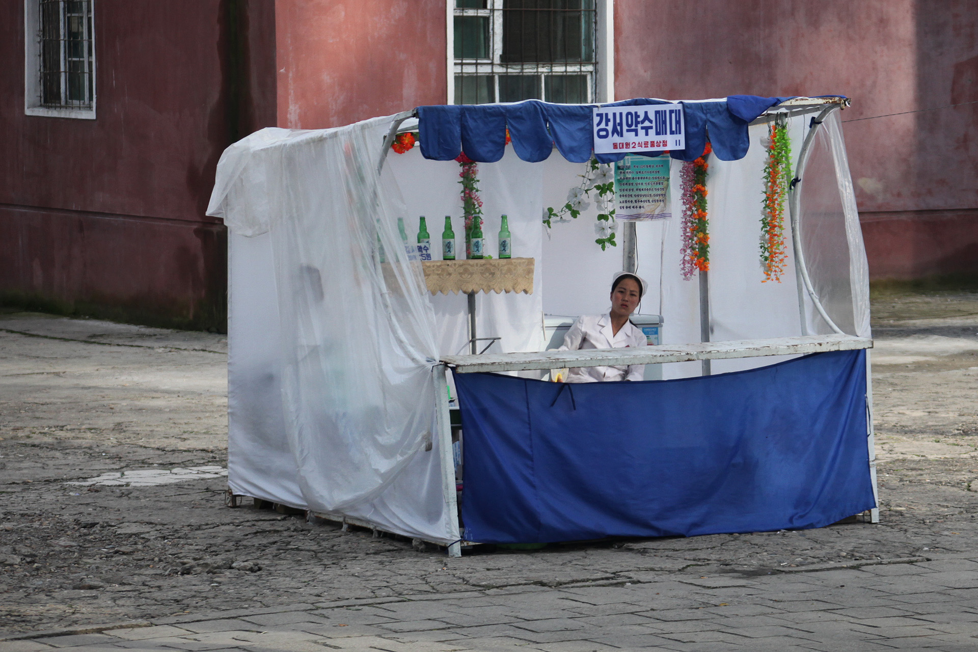 It is three days to National Day in DPRK, so ordinary people can buy some "luxury" items for them.